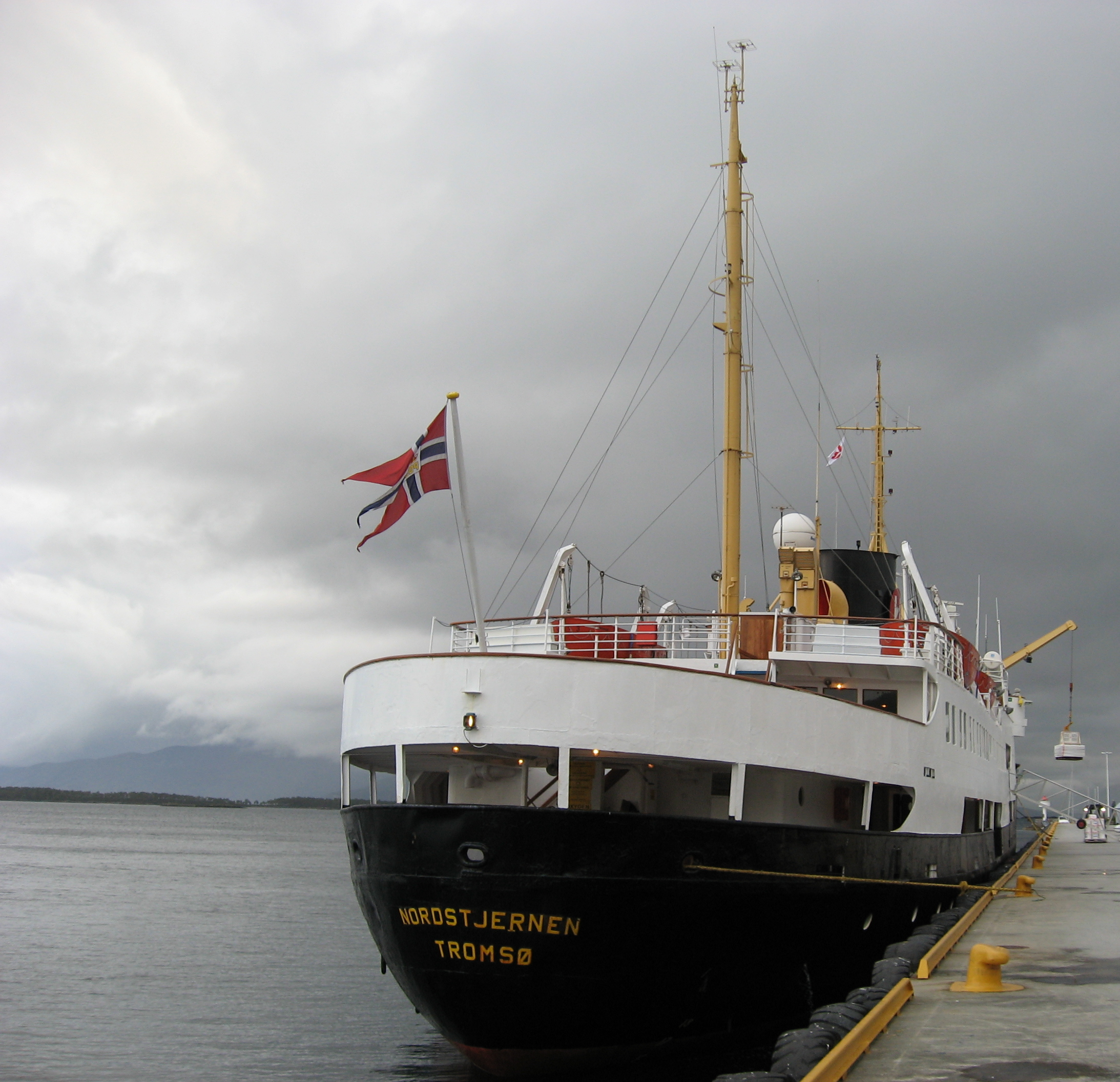 Coastal express ship (Hurtigruten) MS Nordstjernen in Molde harbour